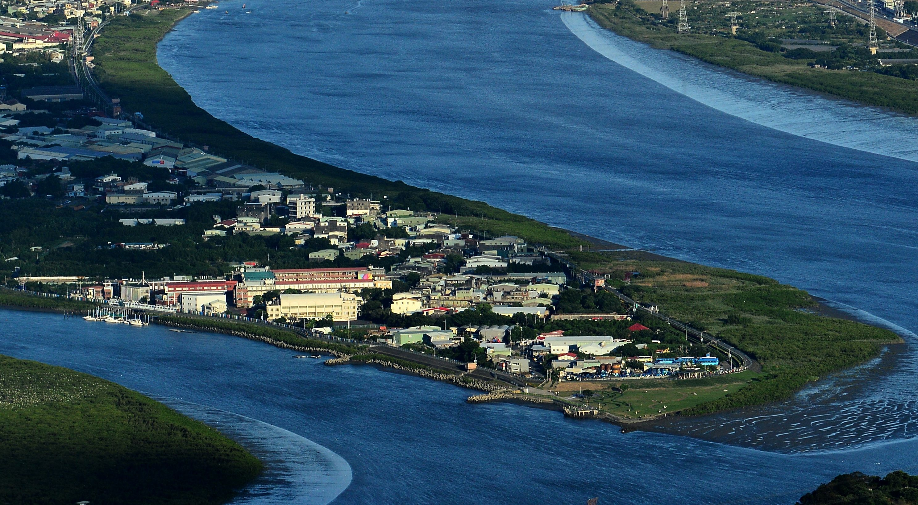 中文（台灣）: 台北海洋技術學院Taipei College of Maritime Technology